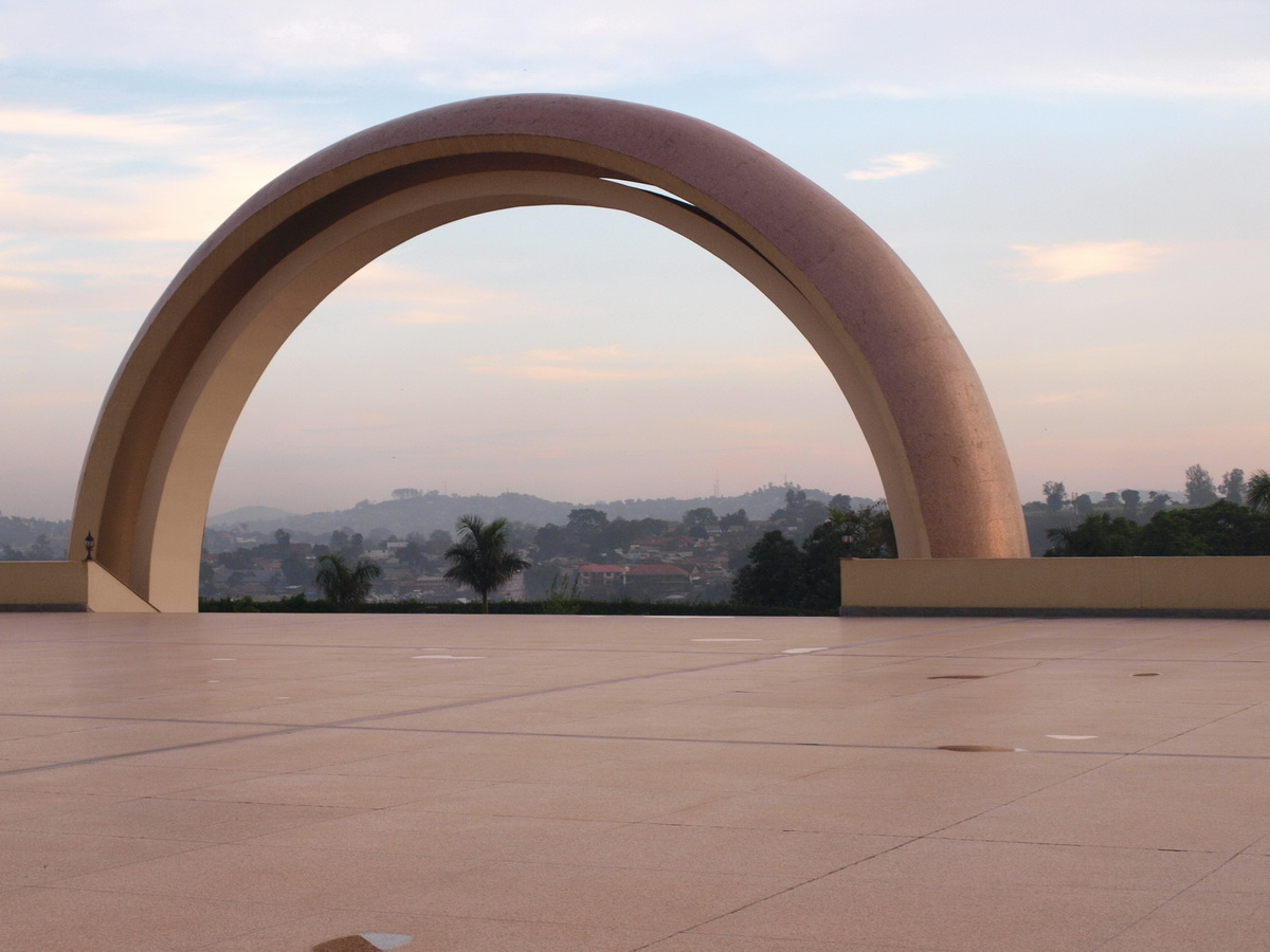 In front of Gaddafimosque, Kampala, Uganda